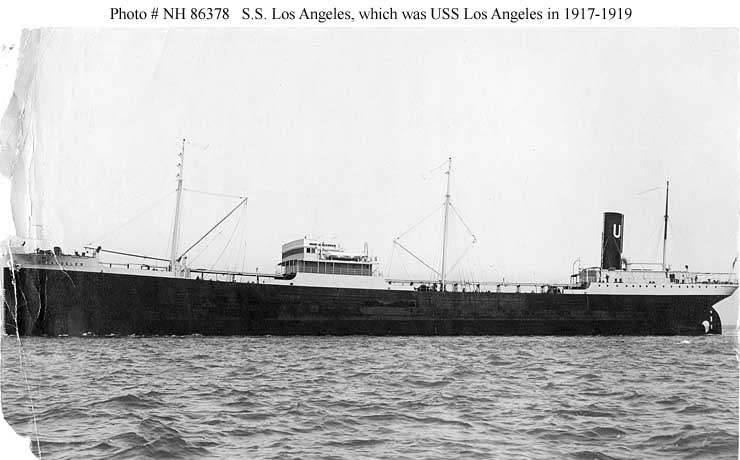 Commercial tanker SS Los Angeles, prior to her 1917-1919 United States Navy service as USS Los Angeles